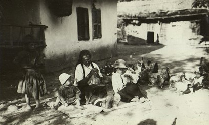 Bulgaria